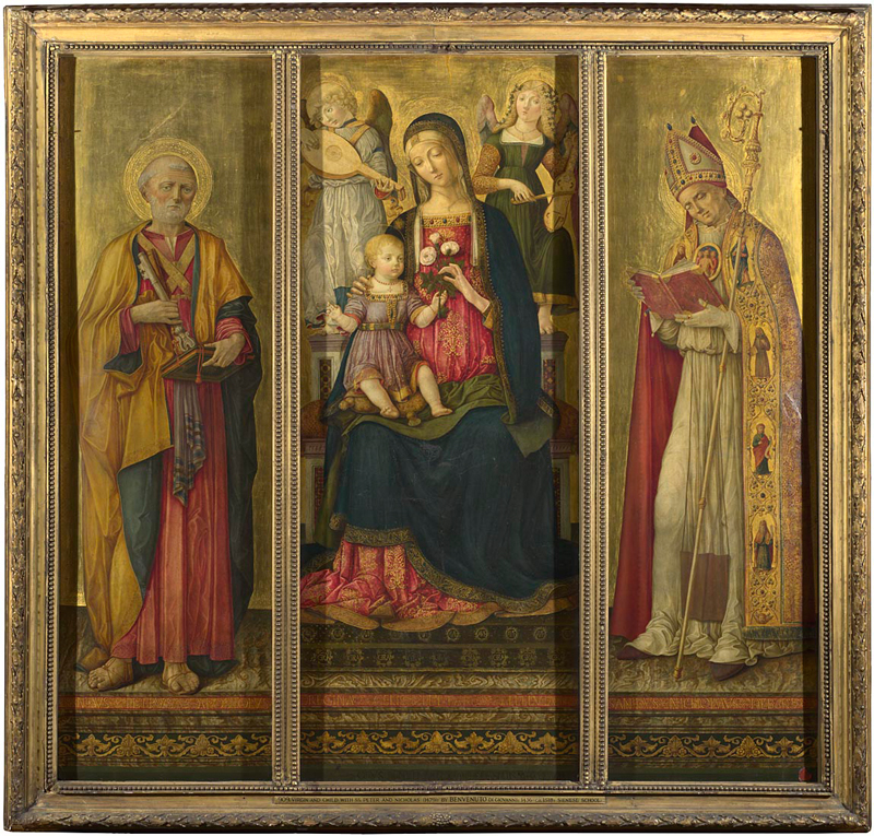 Benvenuto di Giovanni, Altarpiece: The Virgin and Child with Saints, 1479, London, National Gallery